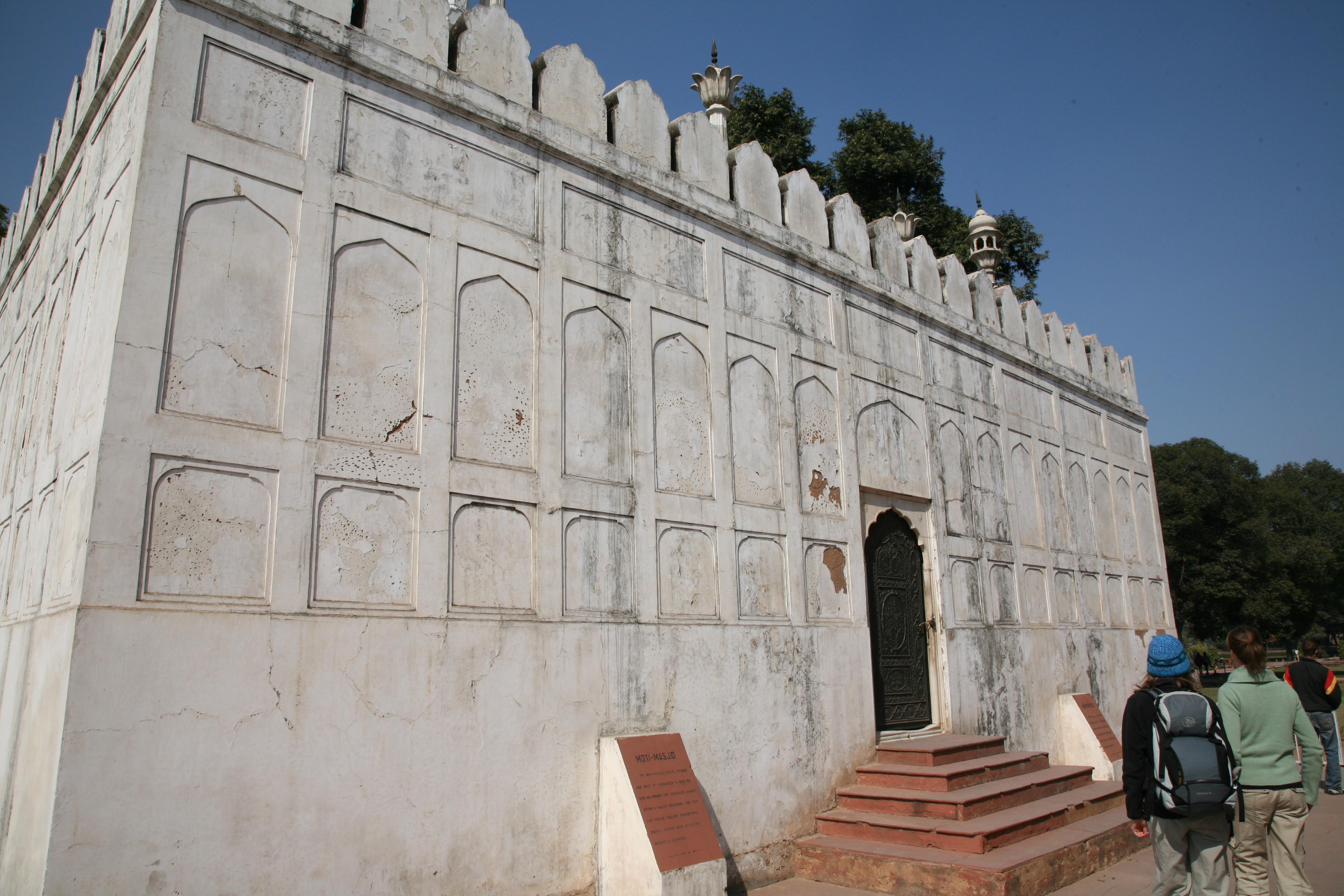 Moti Masjid at the Red Fort, Delhi